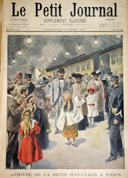 Magazine cover of Le Petit Journal (June 16, 1901) showing the arrival of Queen Ranavalona III of Madagascar in France for her first official visit